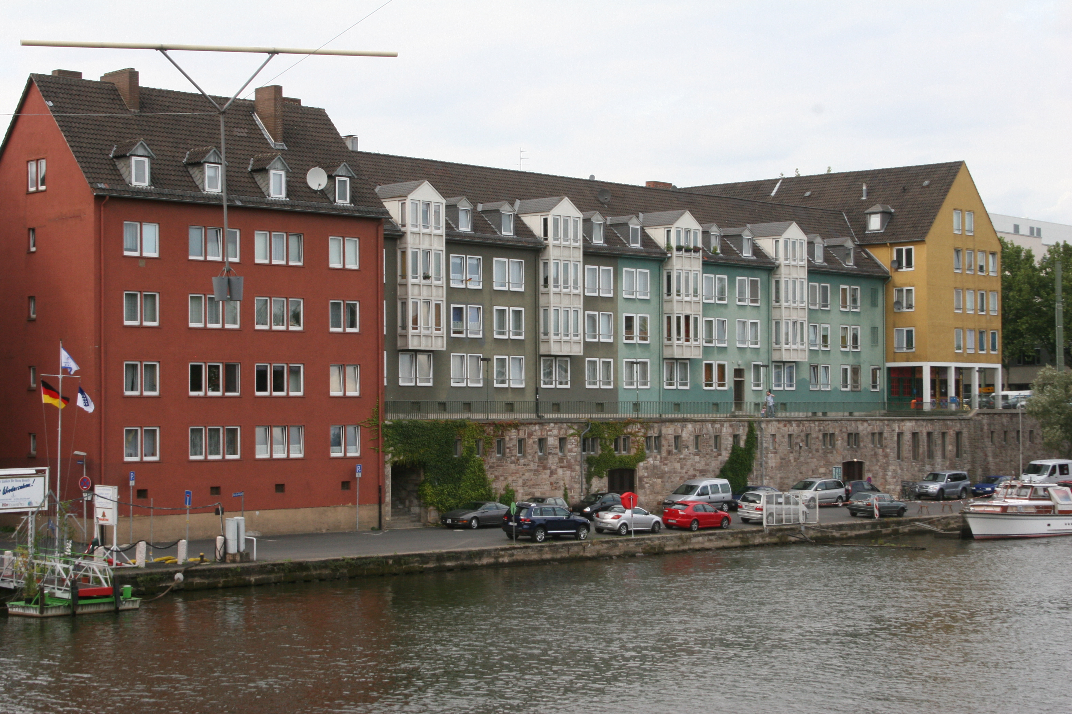 Houses at the Schlagd in Kassel (1953)